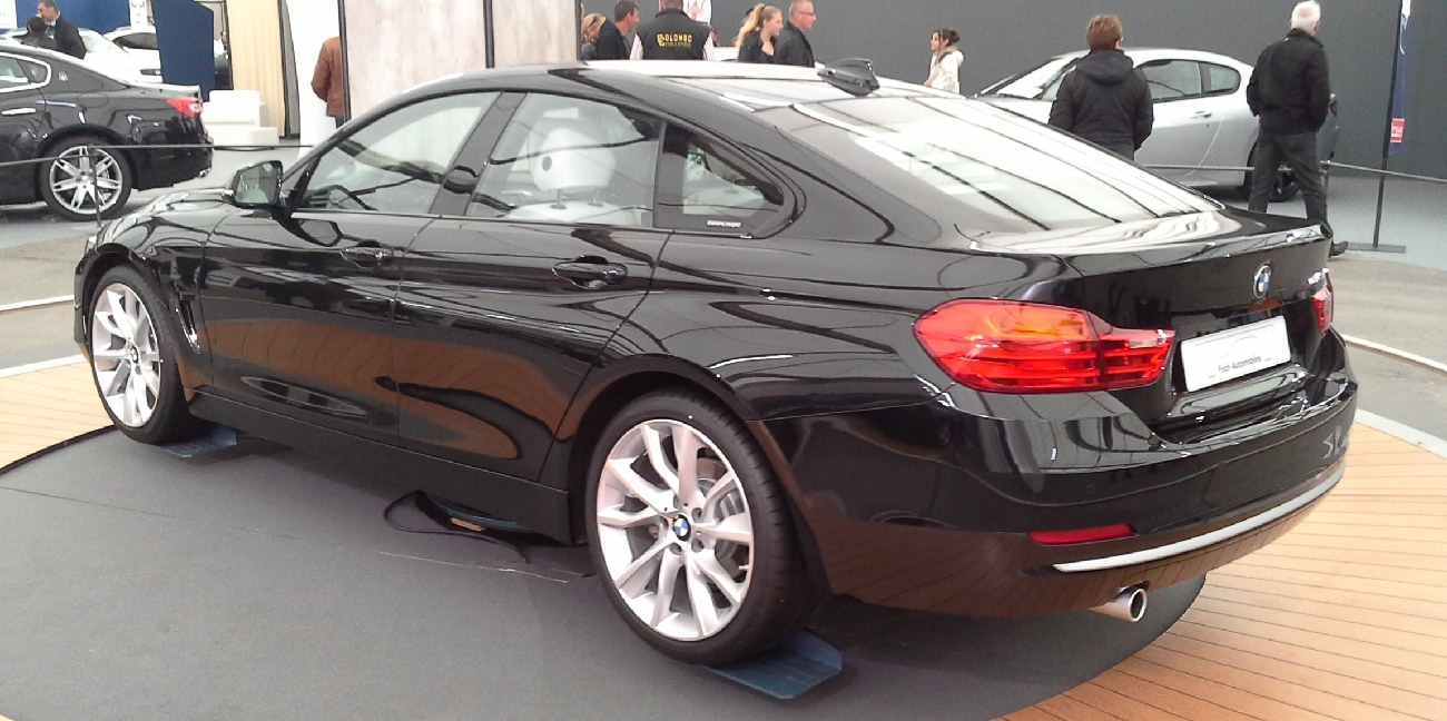 BMW 4-Series F36 Gran Coupé photographed at the 2014 Avignon Motor Festival in Avignon, France.